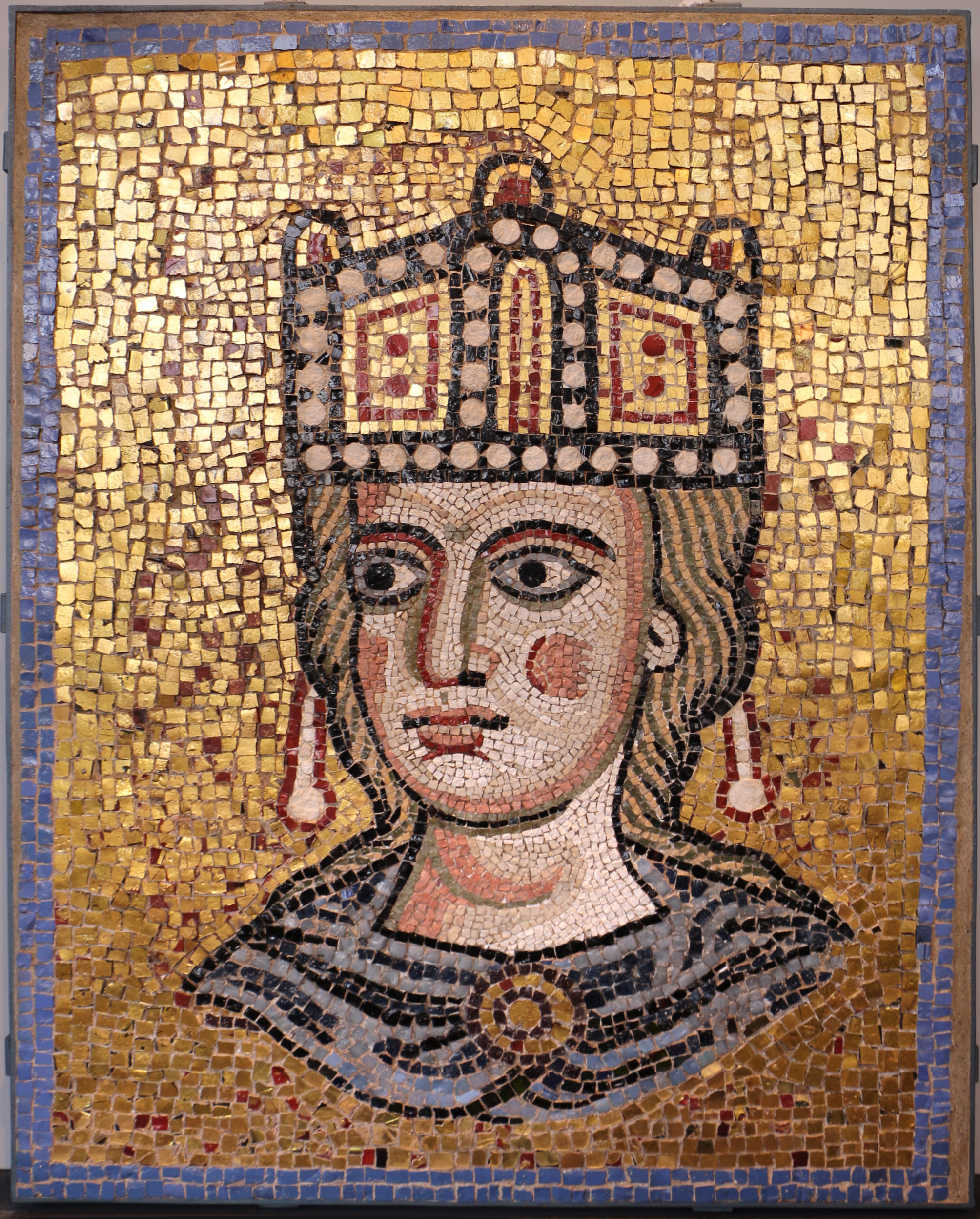 Collections of the Museo Barracco